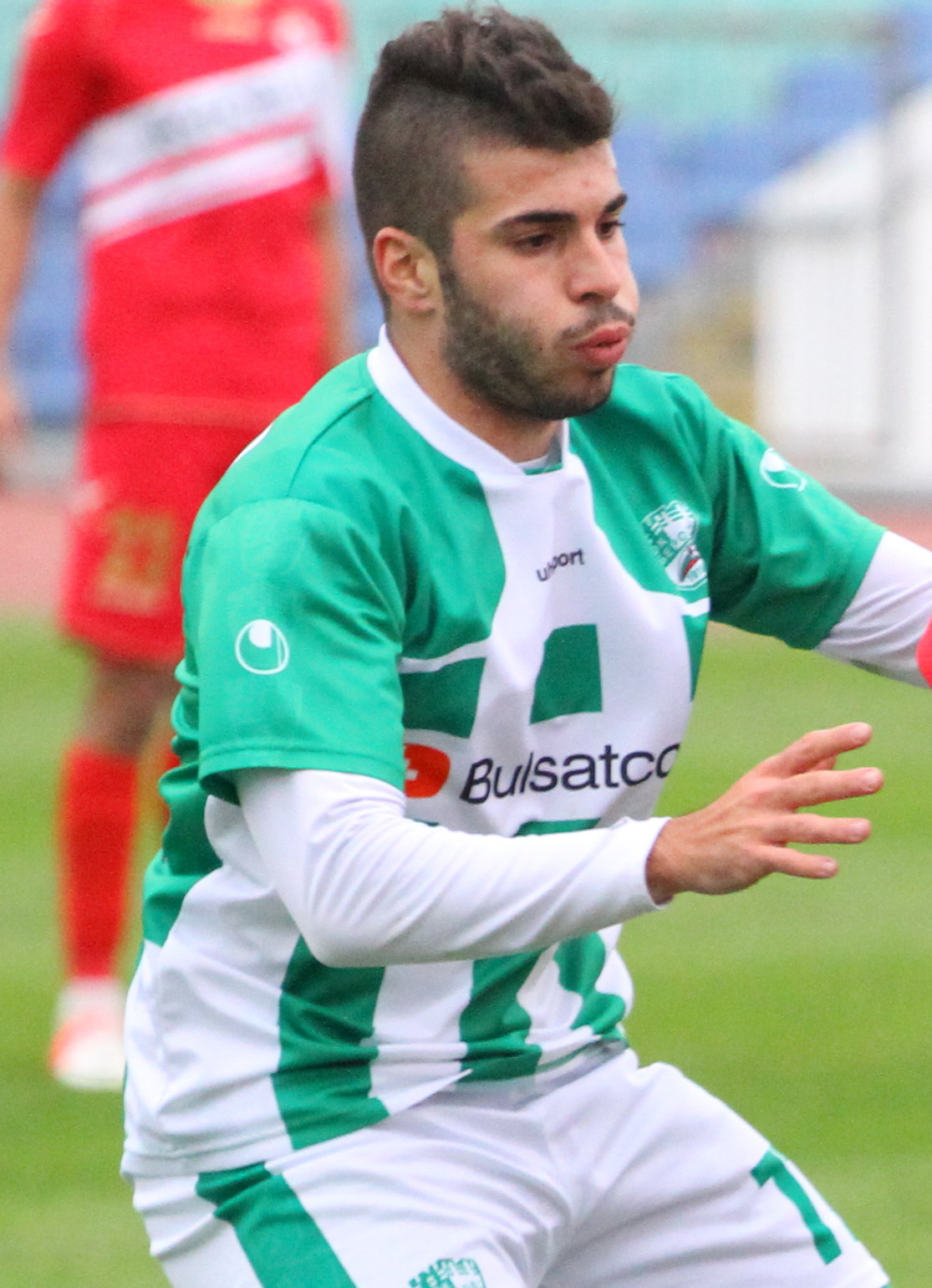 Pedro Eugénio (born 26 June 1990 in Faro) is a Portuguese footballer who plays as a defender for Beroe Stara Zagora in the Bulgarian A Professional Football Group